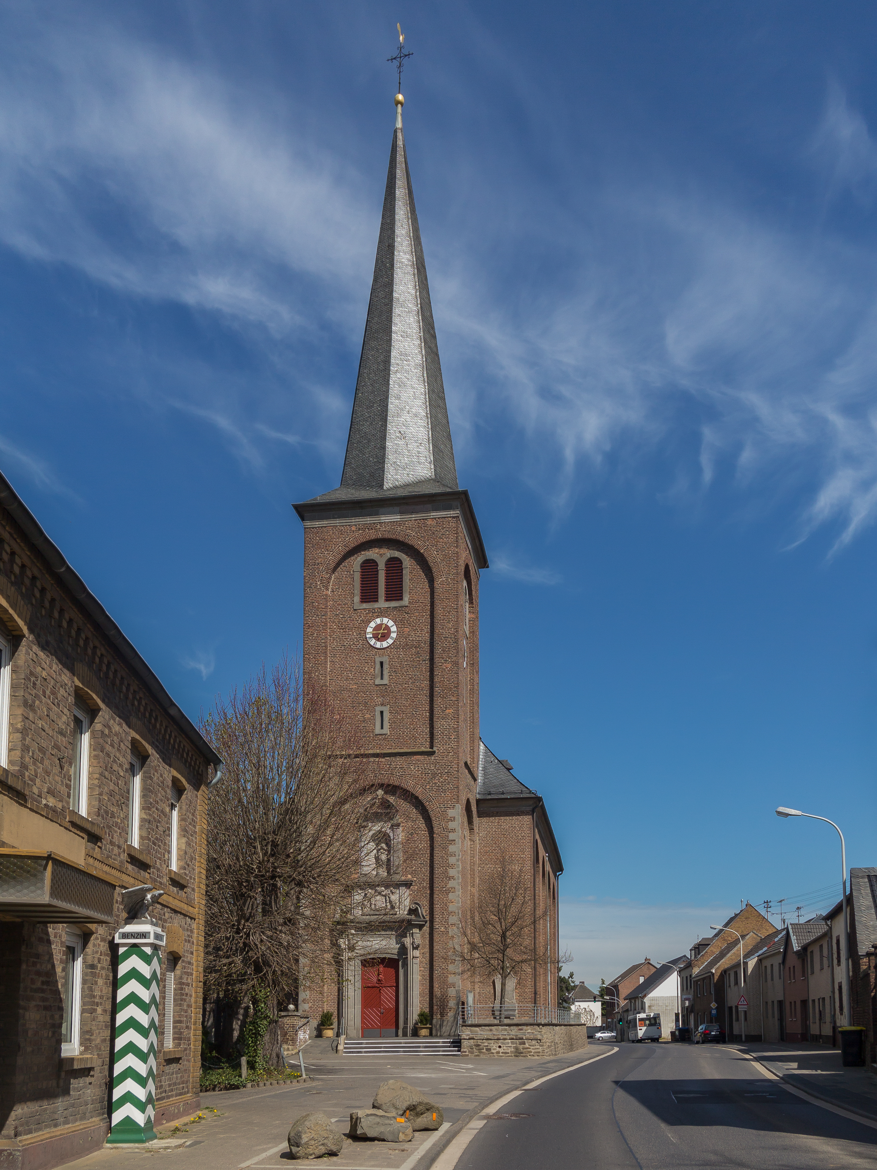 Gross Vernich, church: Kirche Heilig Kreuz This is a photograph of an architectural monument., no. 85